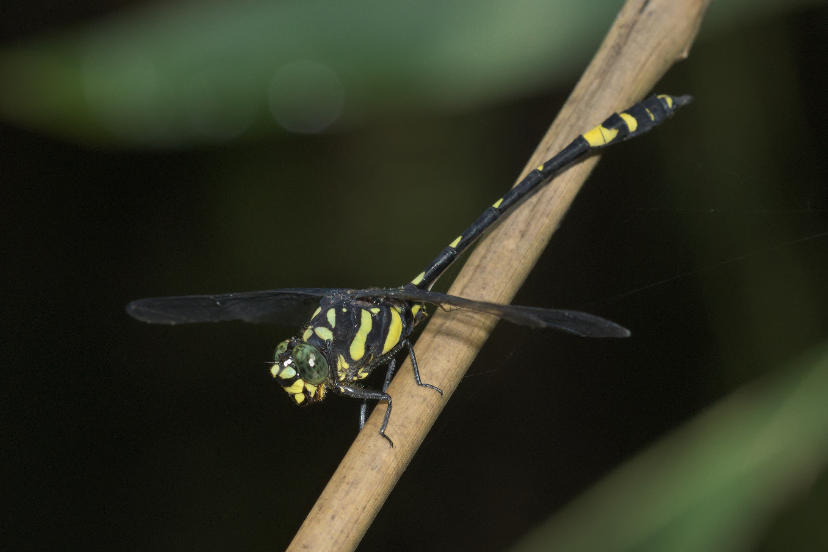 Gomphidia kodaguensis, Southern River Clubtail, is known only from the Western Ghats in India, with records from Karnataka (Fraser 1923, 1934; Laidlaw 1930) and Kerala (Fraser 1934). Very little has been recorded on the habitat or ecology of this species, but it is evidently a species of streams and rivers, and presumably requires some forest for its survival. It appears to be a species of hilly and mountainous areas. (ID confirmed by David Raju; co-author, "Dragonflies and Damselflies of Kerala (Keralathile Thumbikal)")